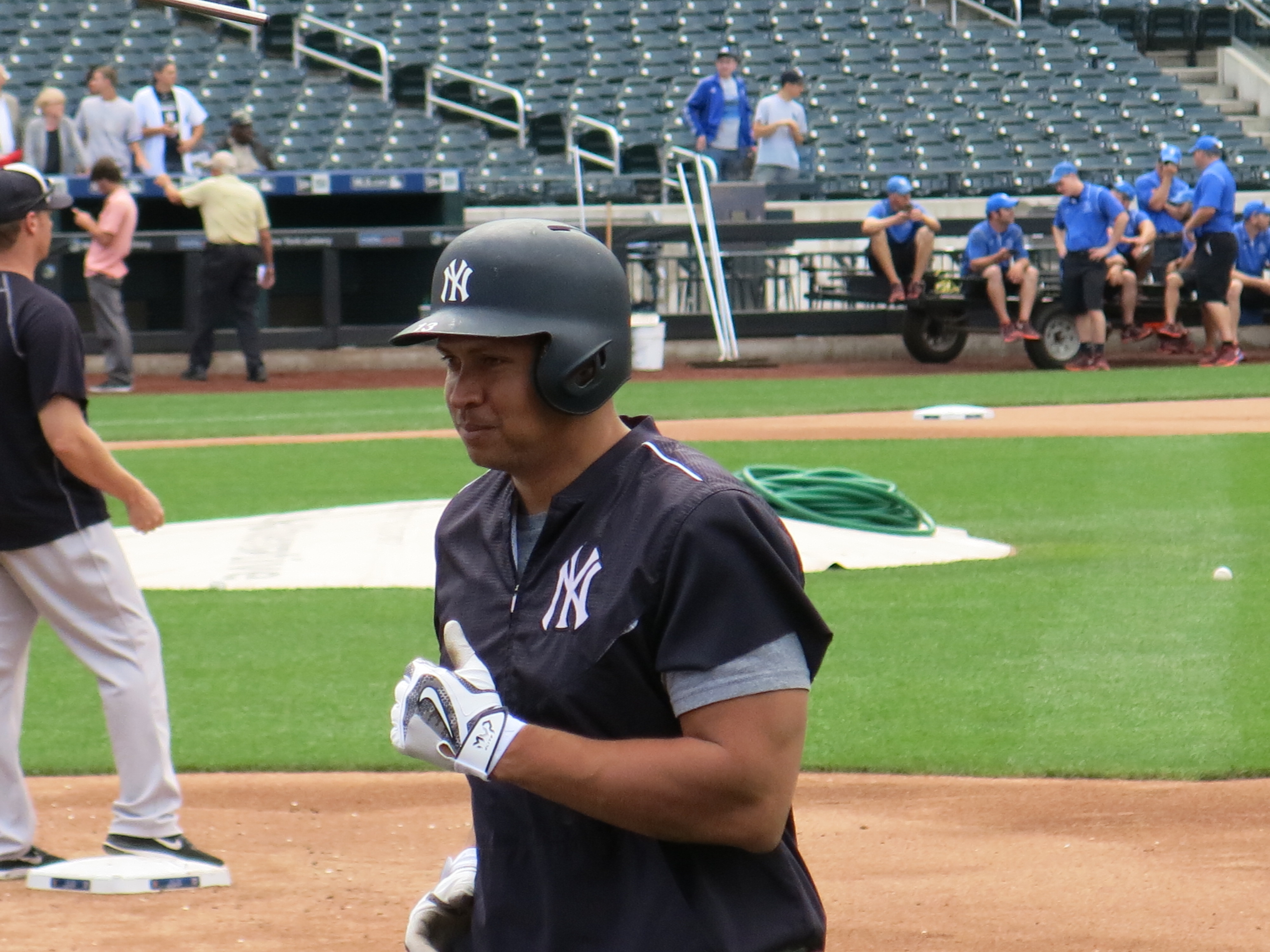 Alex Rodriguez of the New York Yankees, August 2, 2016.